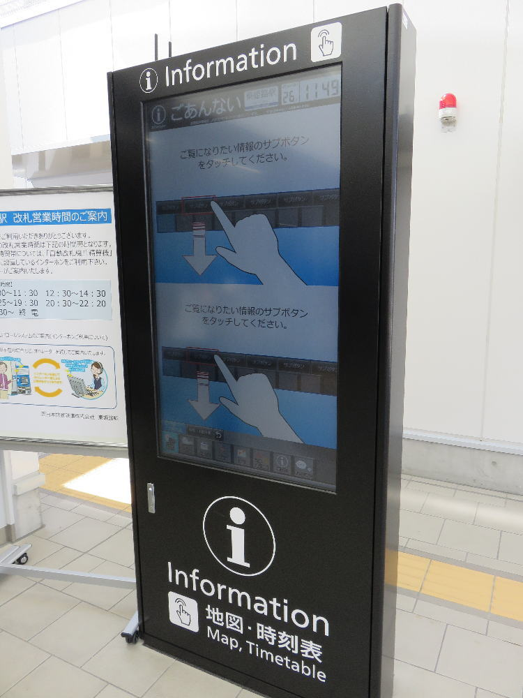 A passenger information touoch-panel screen at Higashi-Himeji Station